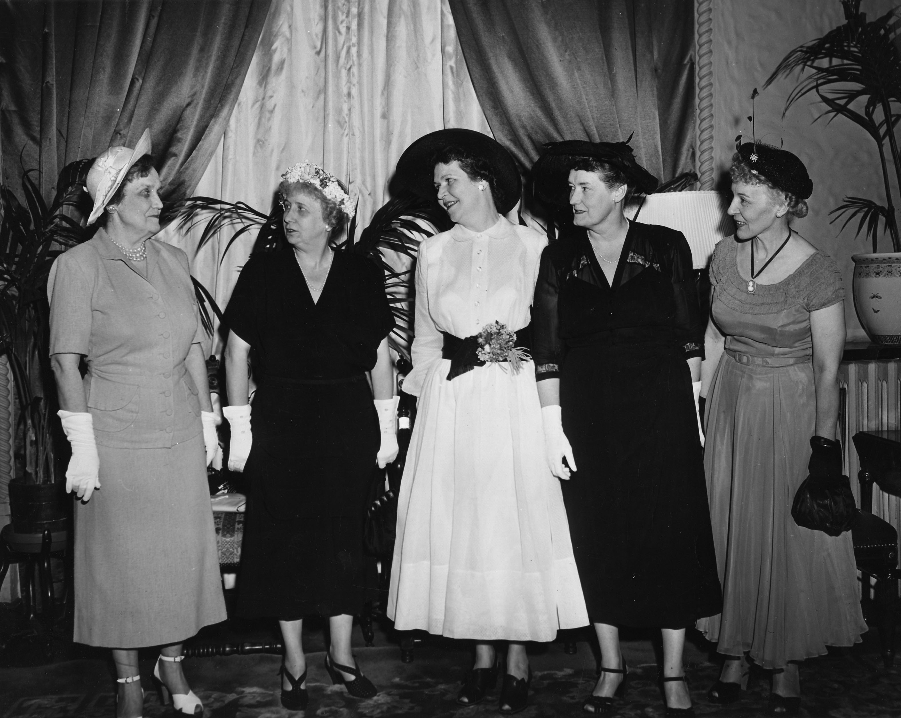 First Lady Mrs. Bess W. Truman with various women Democratic Party leaders. From left to right: United States Ambassador to Luxembourg Perle Mesta, Mrs. Truman, Treasurer of the United States Mrs. Georgia Neese Clark, Democratic National Committee Vice-Chair India Edwards, and Mrs. Gladys Avery Tillett.